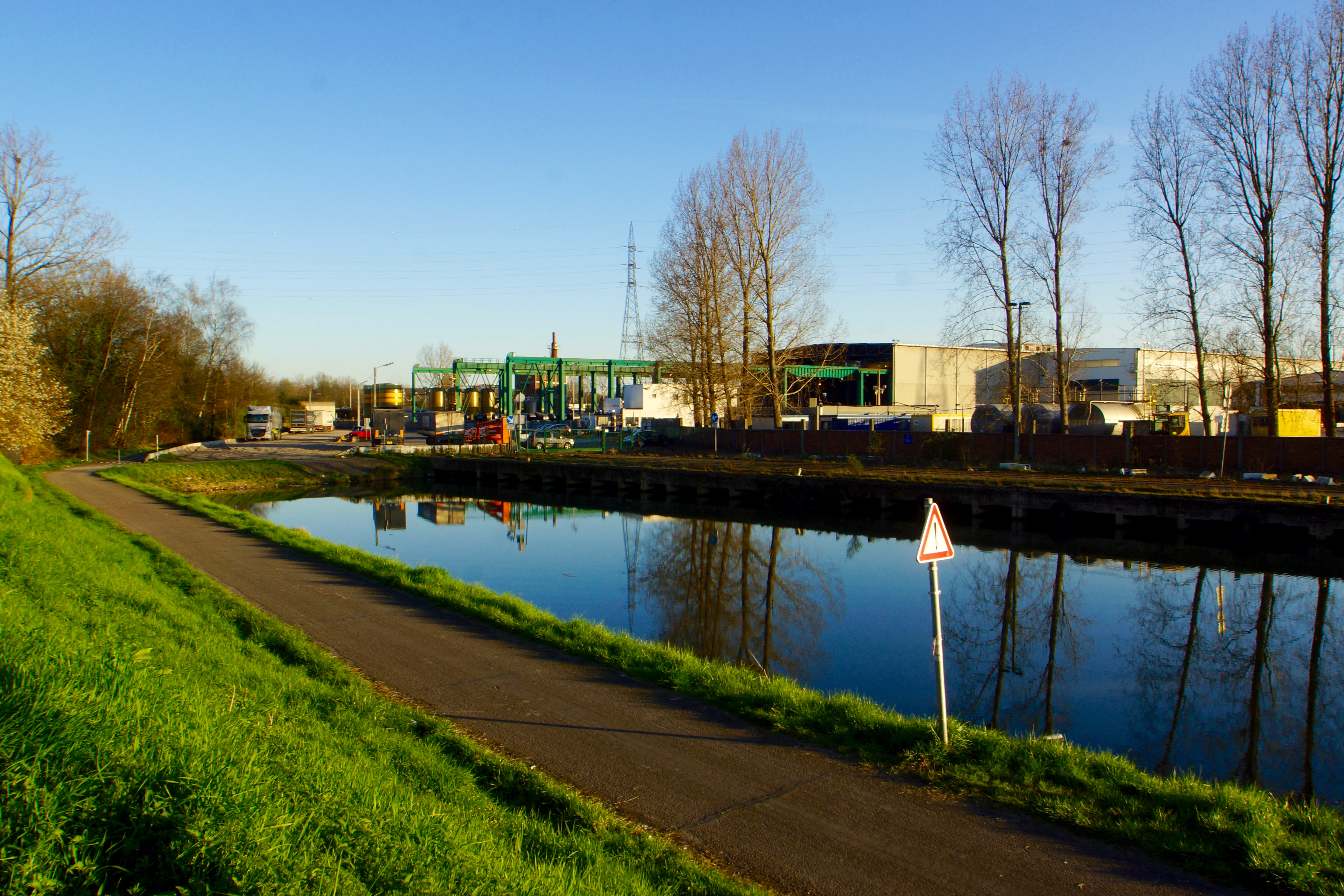 La Louvière, Belgium: La Louvière Branch from Canal du Centre